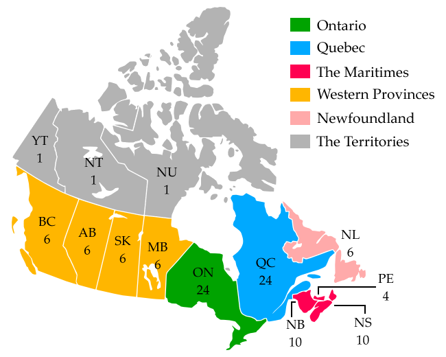 Map of Canadian Senate Divisions